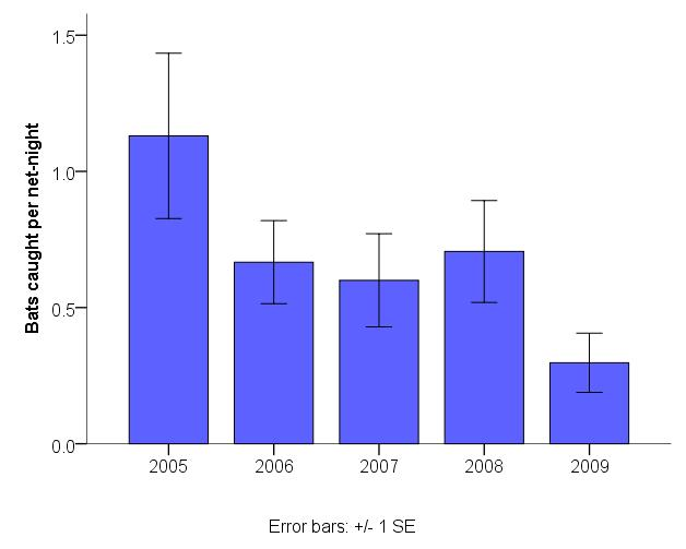 Trends in bats captured in New Hampshire before and after the arrival of WNS